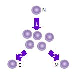 1. After the naive T cell (N) encounters an antigen it becomes activated and begins to proliferate (divide) into many clones or daughter cells. 2. Some of the T cell clones will differentiate into effector T cells (E) that will perform the function of that cell (e.g. produce cytokines in the case of helper T cells or invoke cell killing in the case of cytotoxic T cells). 3. Some of the cells will form memory T cells (M) that will survive in an inactive state in the host for a long period of time until they re-encounter the same antigen and reactivate.